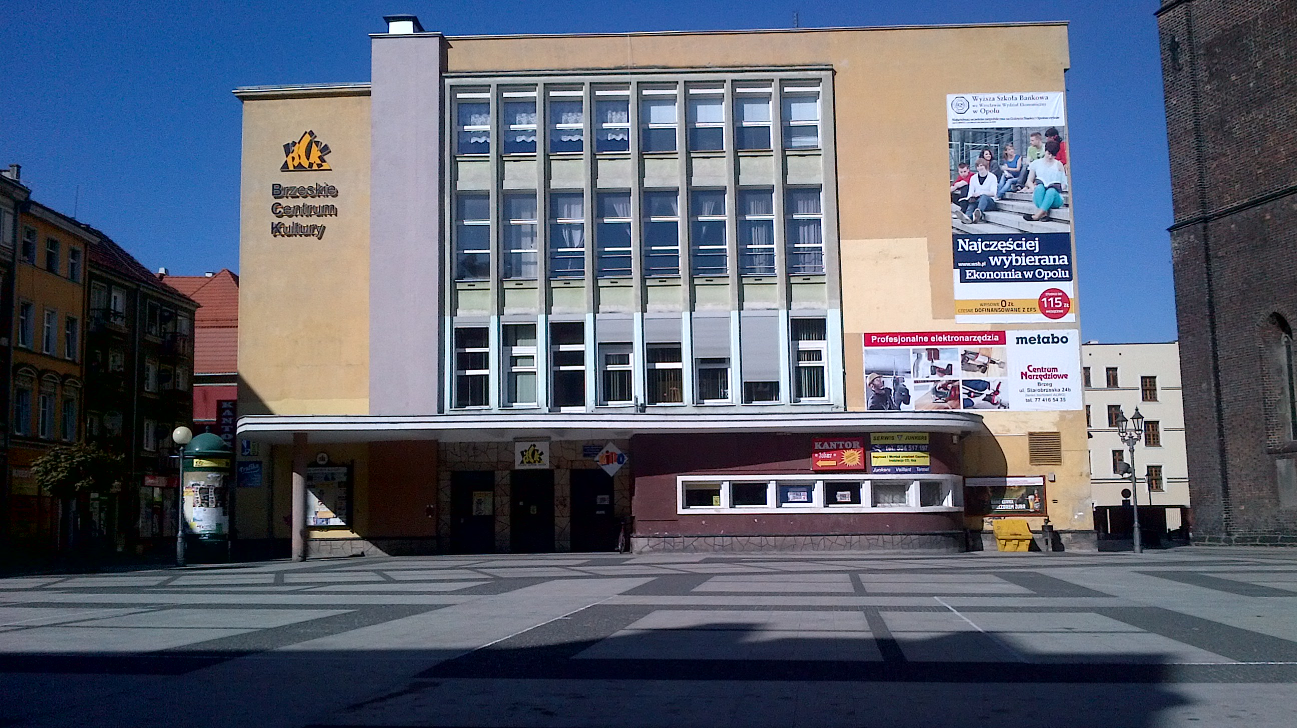 Centre of Culture House in Brzeg in Poland